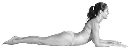 Ardha bhujangásana